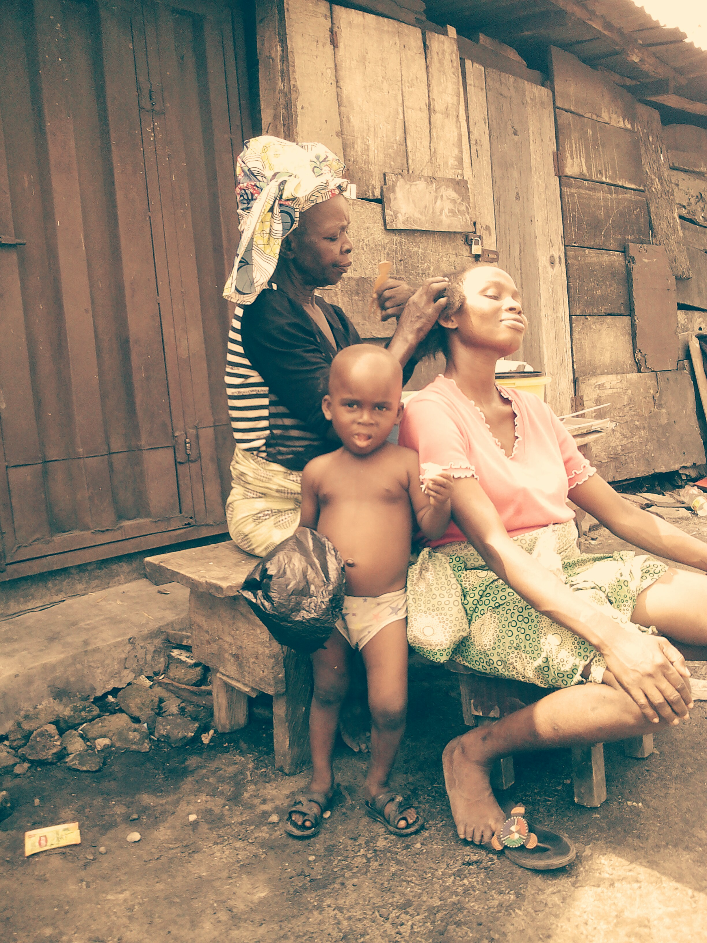 A woman working as an hairdresser This is an image of "African people at work" from Nigeria